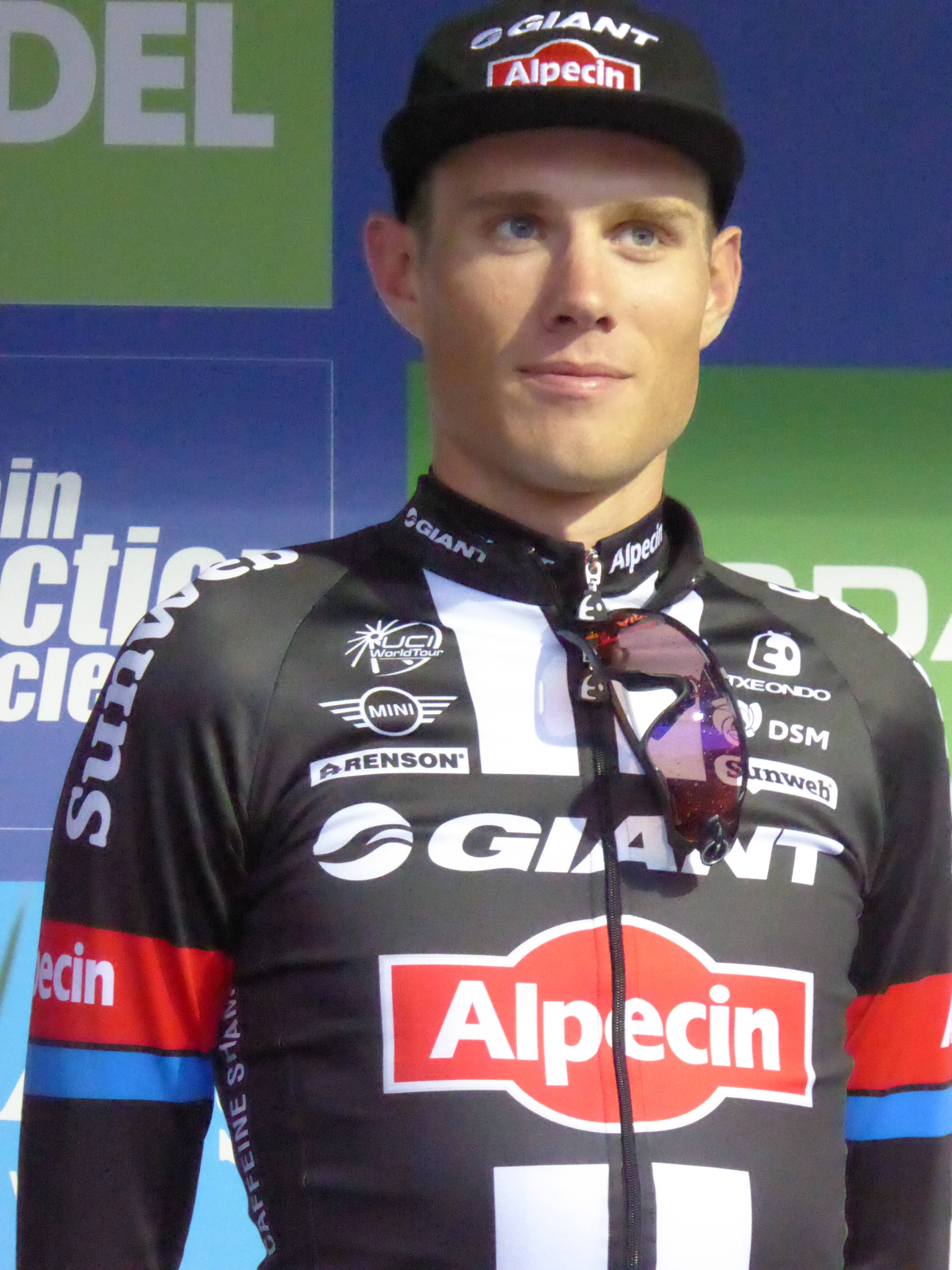 Jochem Hoekstra (Team Giant-Alpecin stagiaire), pictured at the 2016 Tour of Britain team presentation in Glasgow on 3 September 2016.